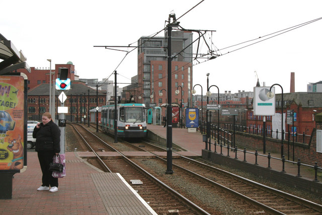 G-Mex station, Manchester Metrolink Car 1005, one of the original trams modified for street running, departs on a service to Eccles.